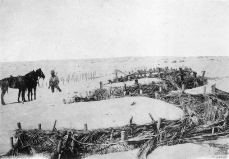 AWM caption : North Africa: Egypt, Frontier Romani Area. View of Turkish trenches used during the Battle of Romani.